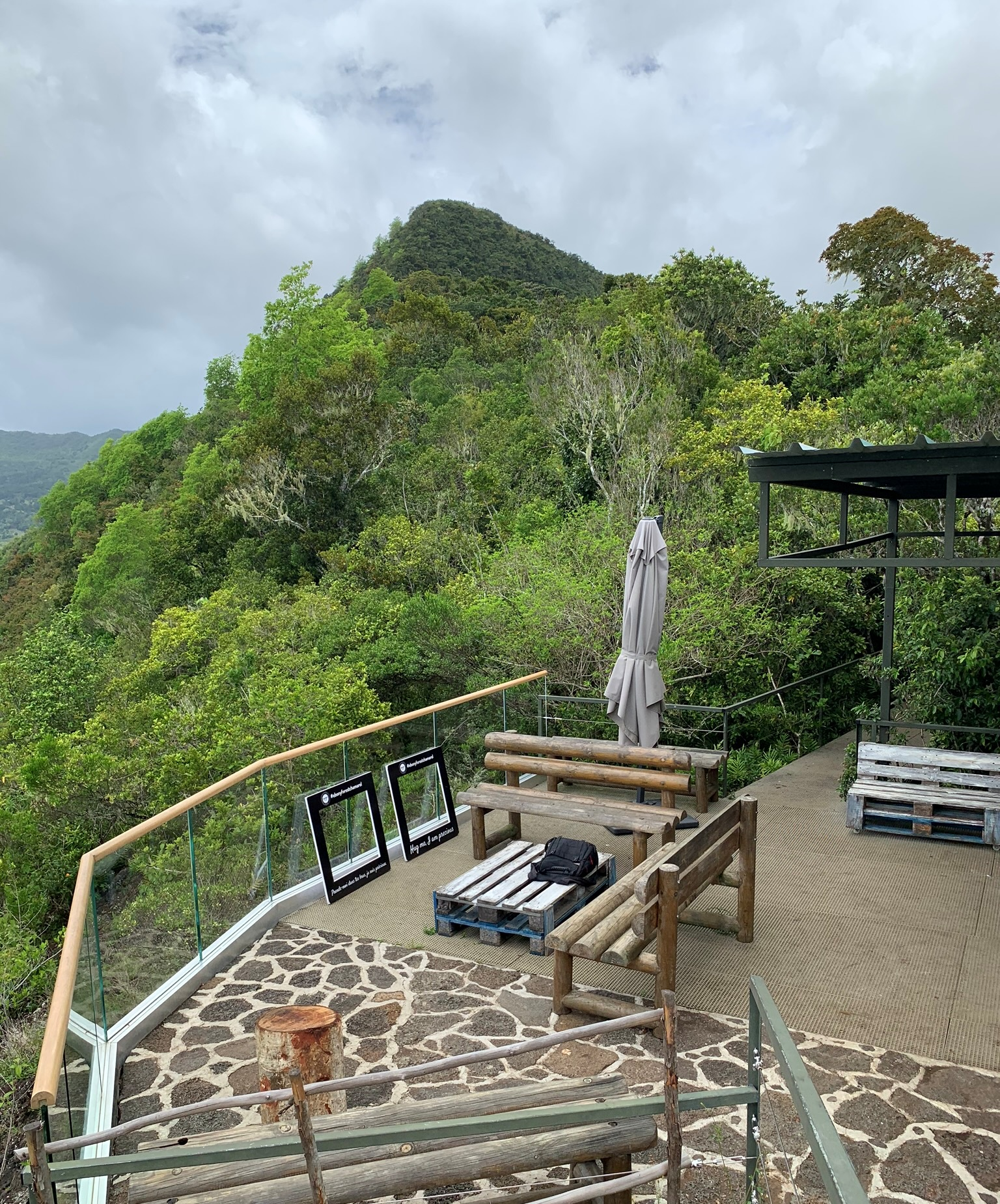 Ebony Forest Chamarel